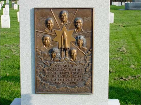 Memorial of the Space Shuttle Challenger